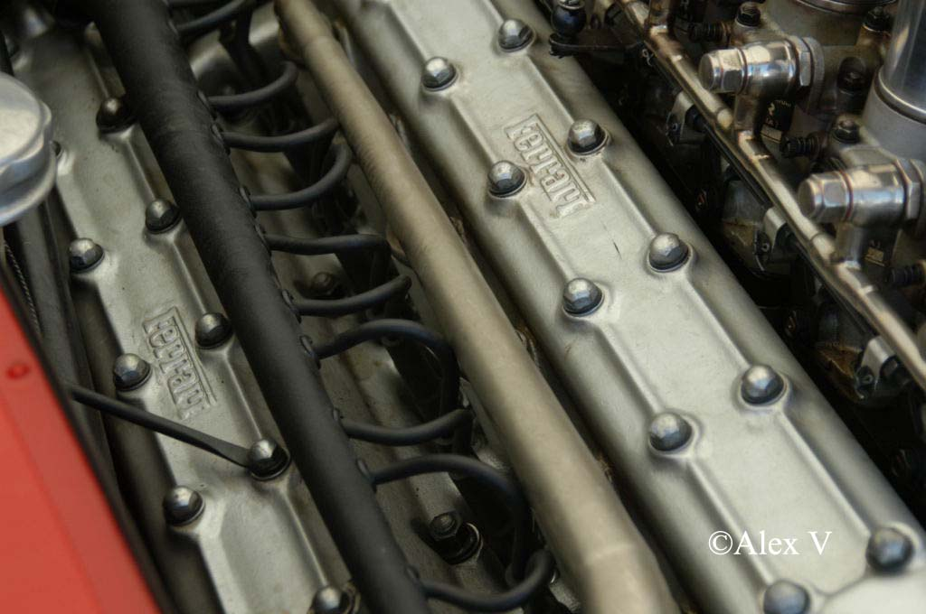 Category:1958 Ferrari 312S/412MI s/n 0744 at Monterey Historics 2008